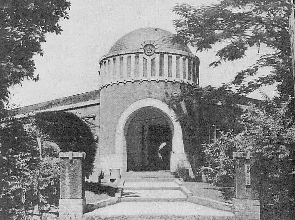 Nan'yo-cho(Administrative Headquarters of the South Pacific Mandate) Saipan Hospital